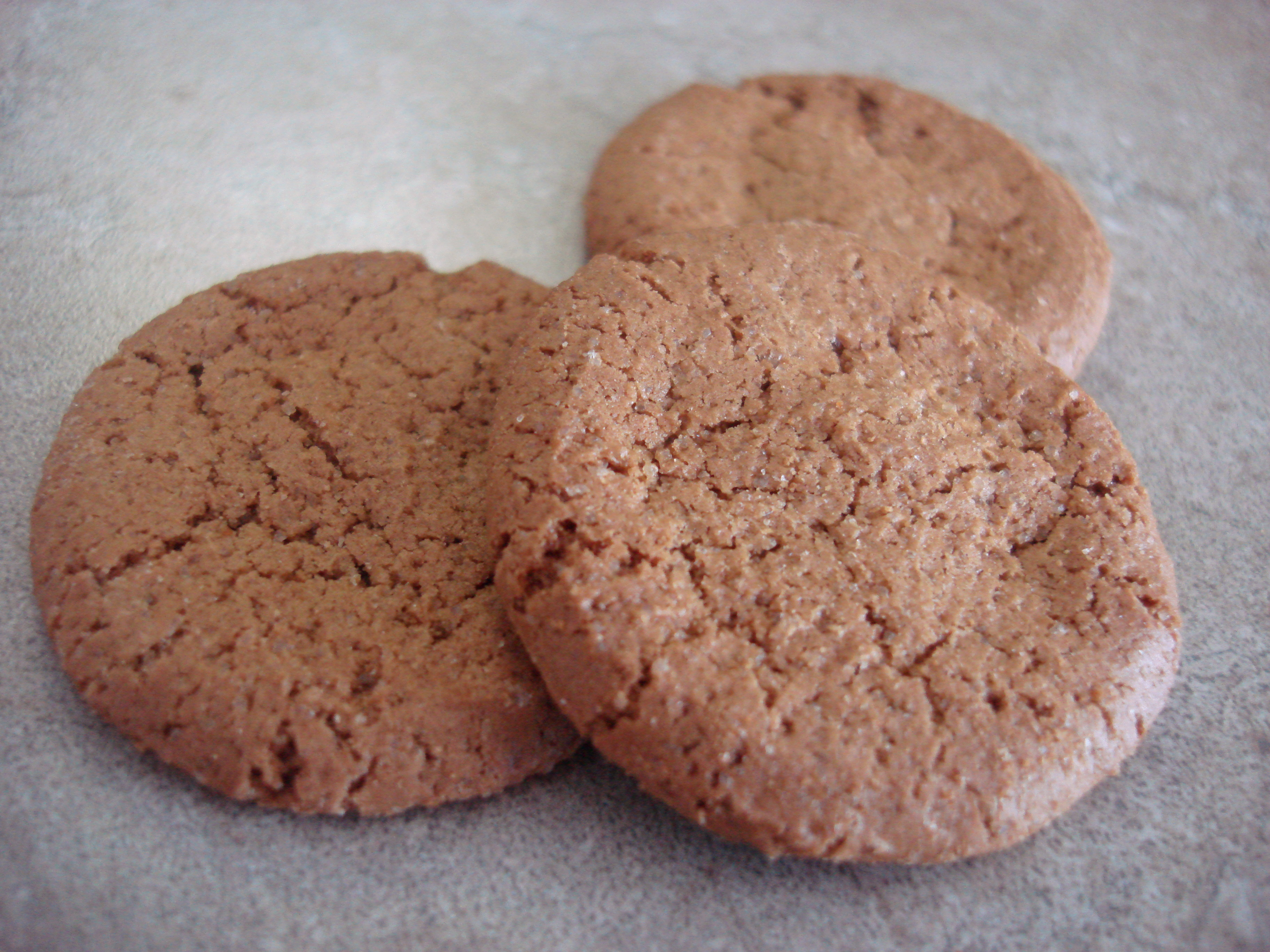 Photo of three drop cookie-style gingersnaps on a countertop